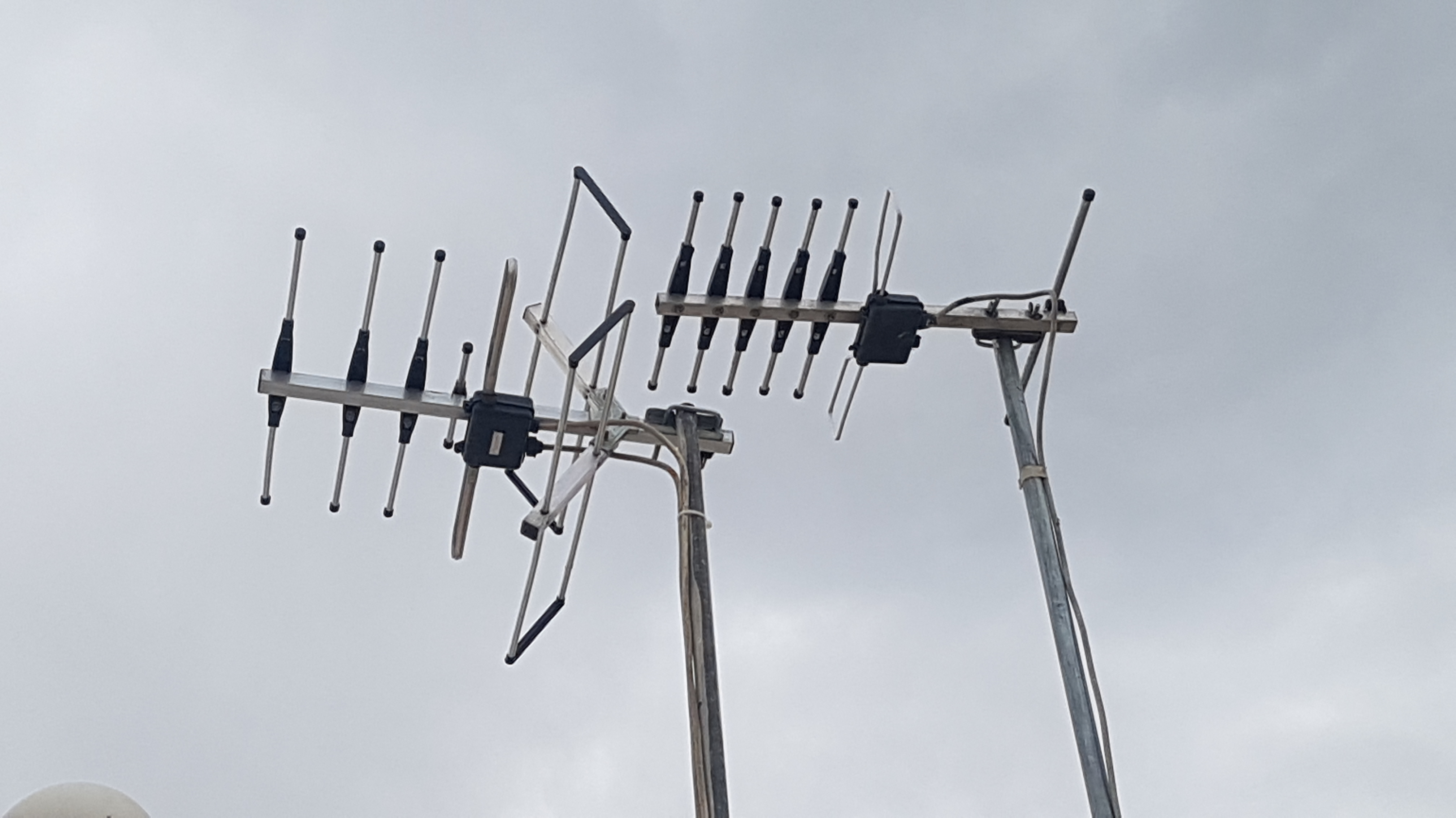 Tv yagi antenna